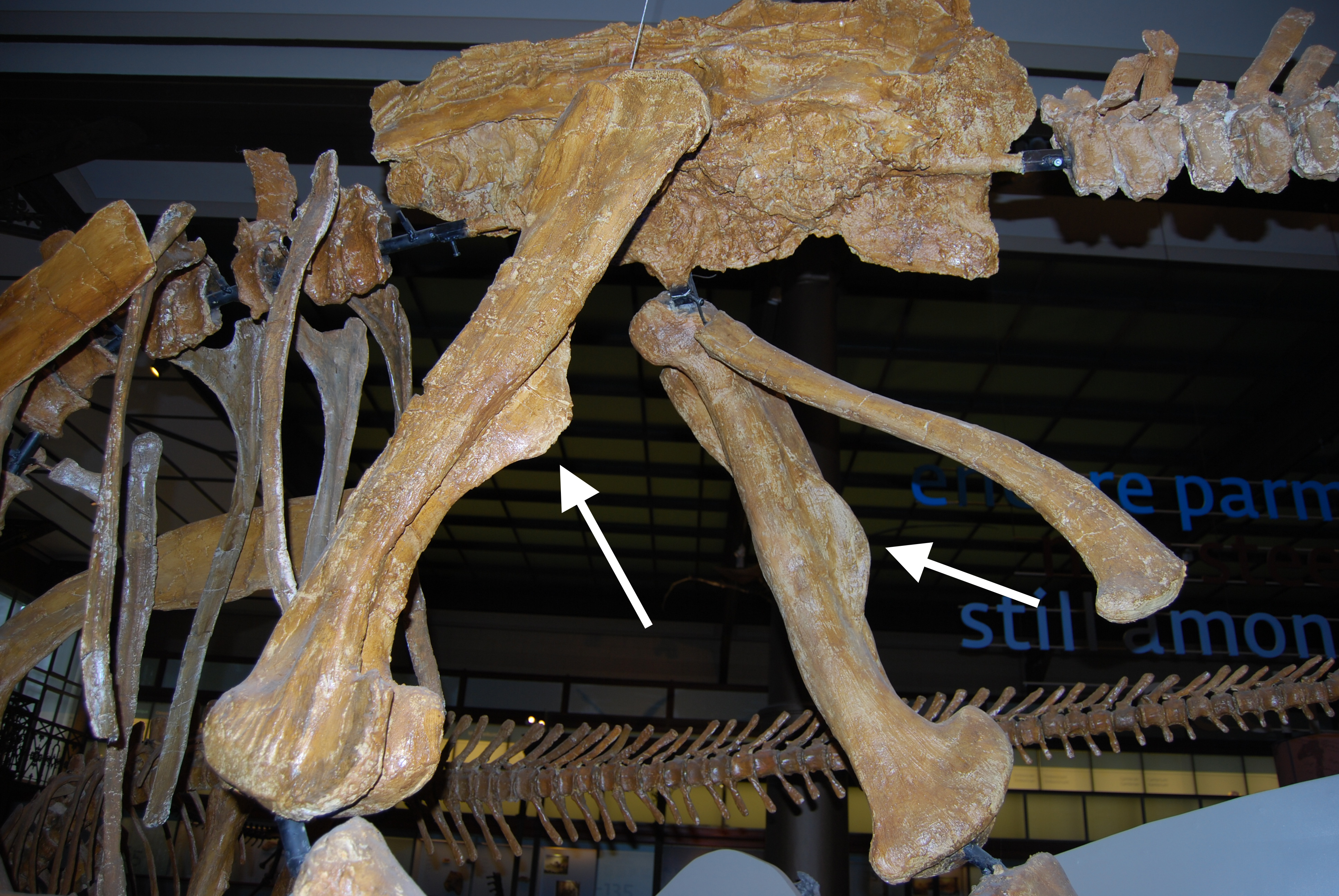 Femurs of Olorotitan arharensis showing the position of the fourth trochanter.